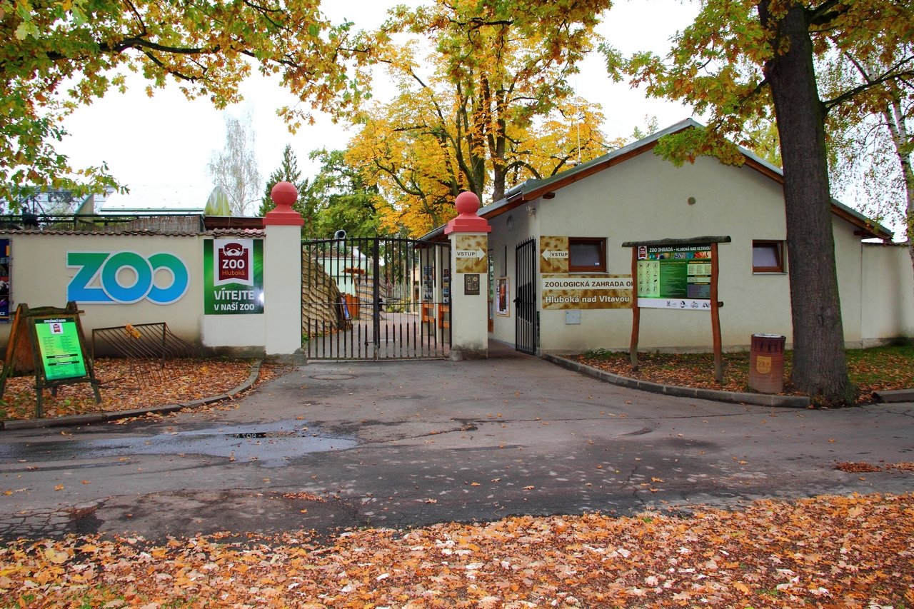 Entrance to the Zoo Hluboka